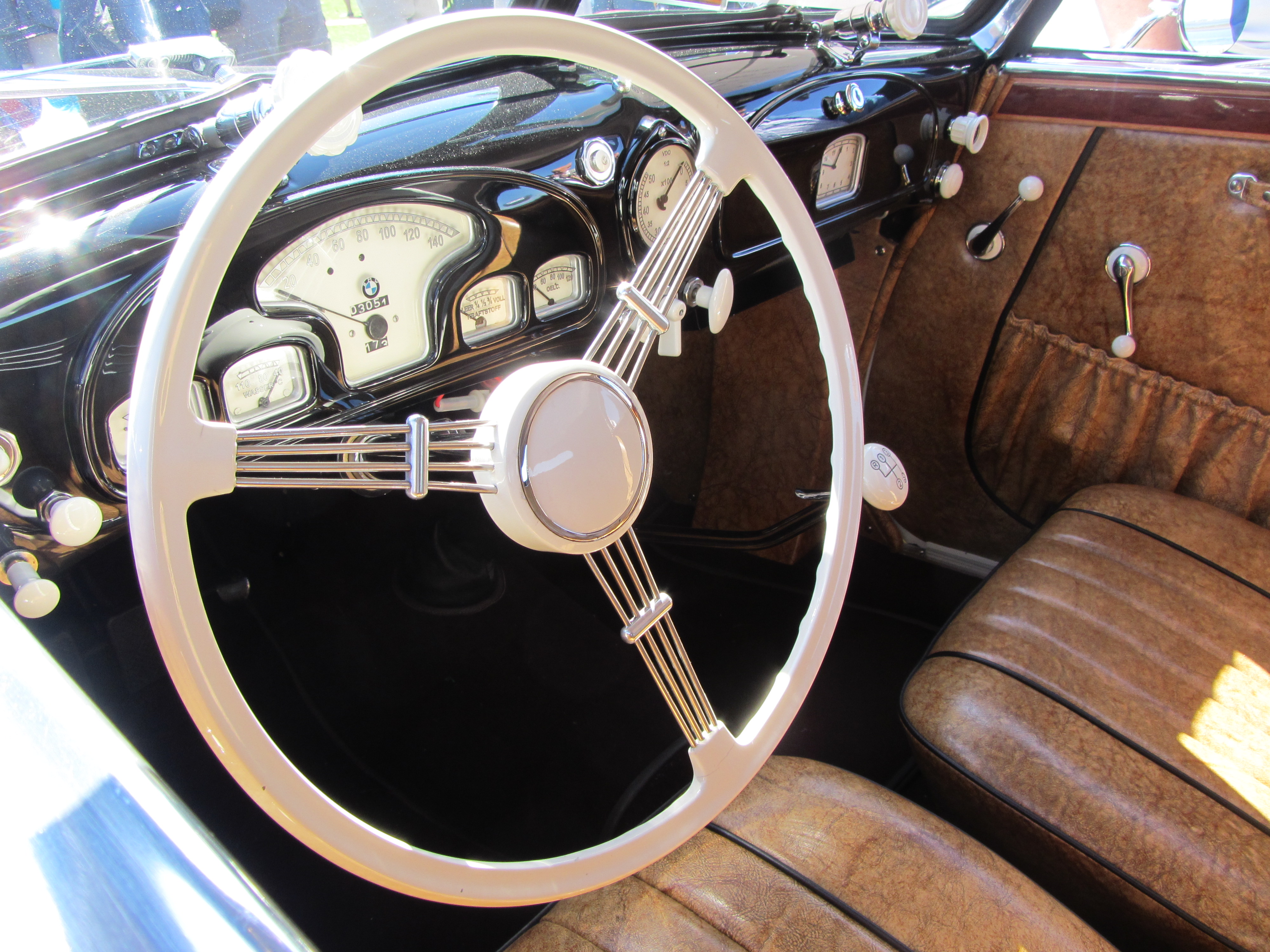 Crescent Beach Concours d'Elegance, Blackie Spit, Surrey, British Columbia.